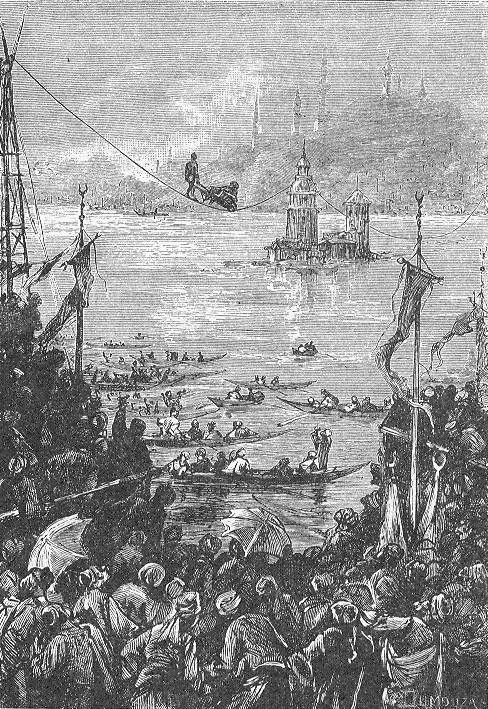 An ilustration from "Kéraban the Inflexible" by Jules Verne paited by Léon Benett.